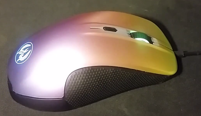 The Steelseries Rival 300 Fade Edition.